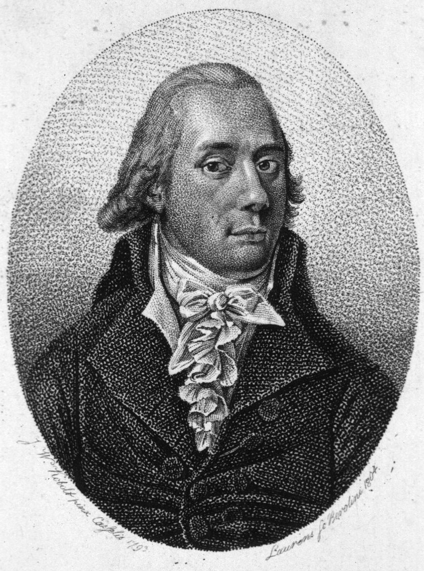 Johann Friedrich Blumenbach, German physician, physiologist and anthropologist